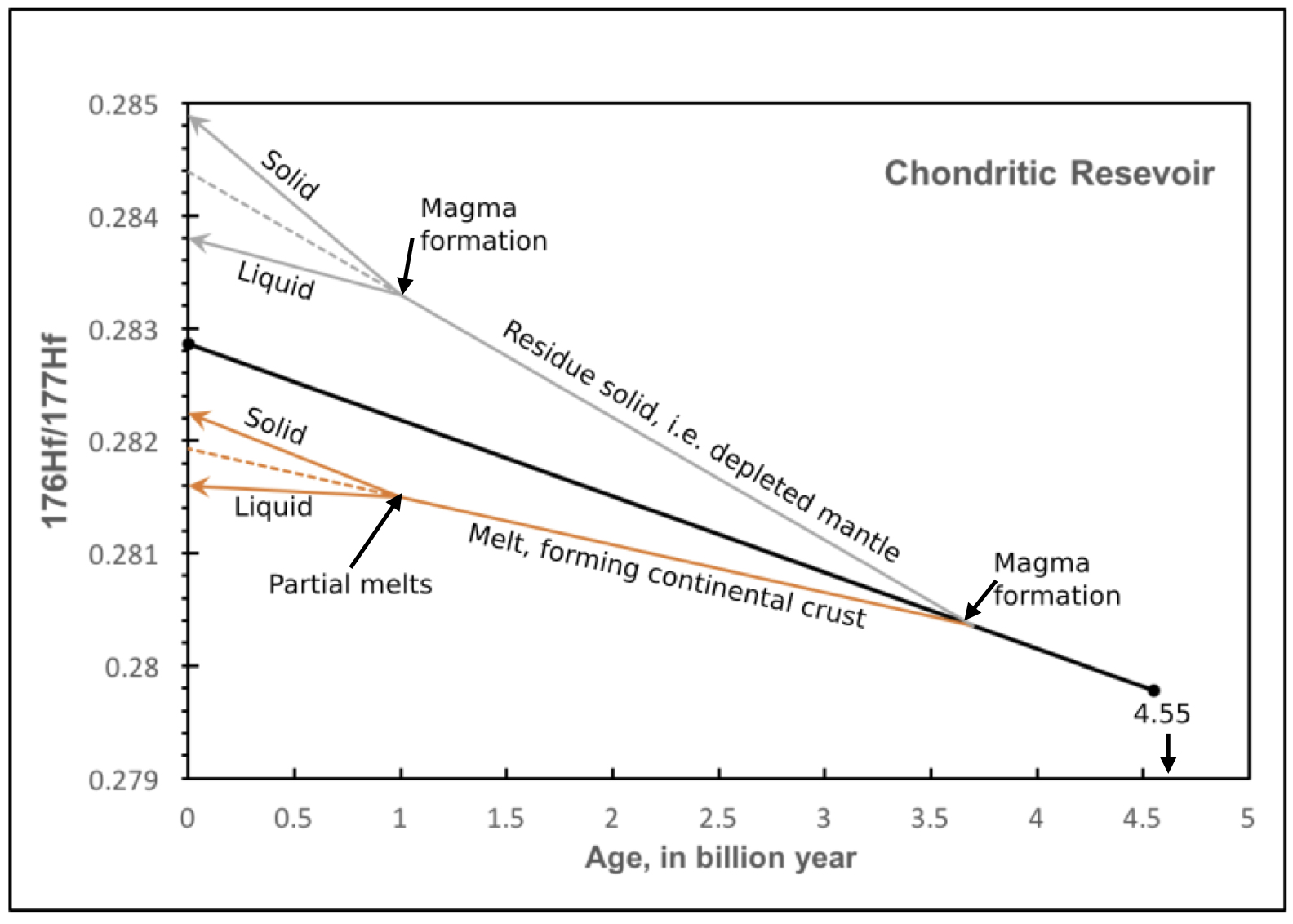 Schematic Hf evolution through the age of Earth. All values are hypothetical except the values represented by the black line.